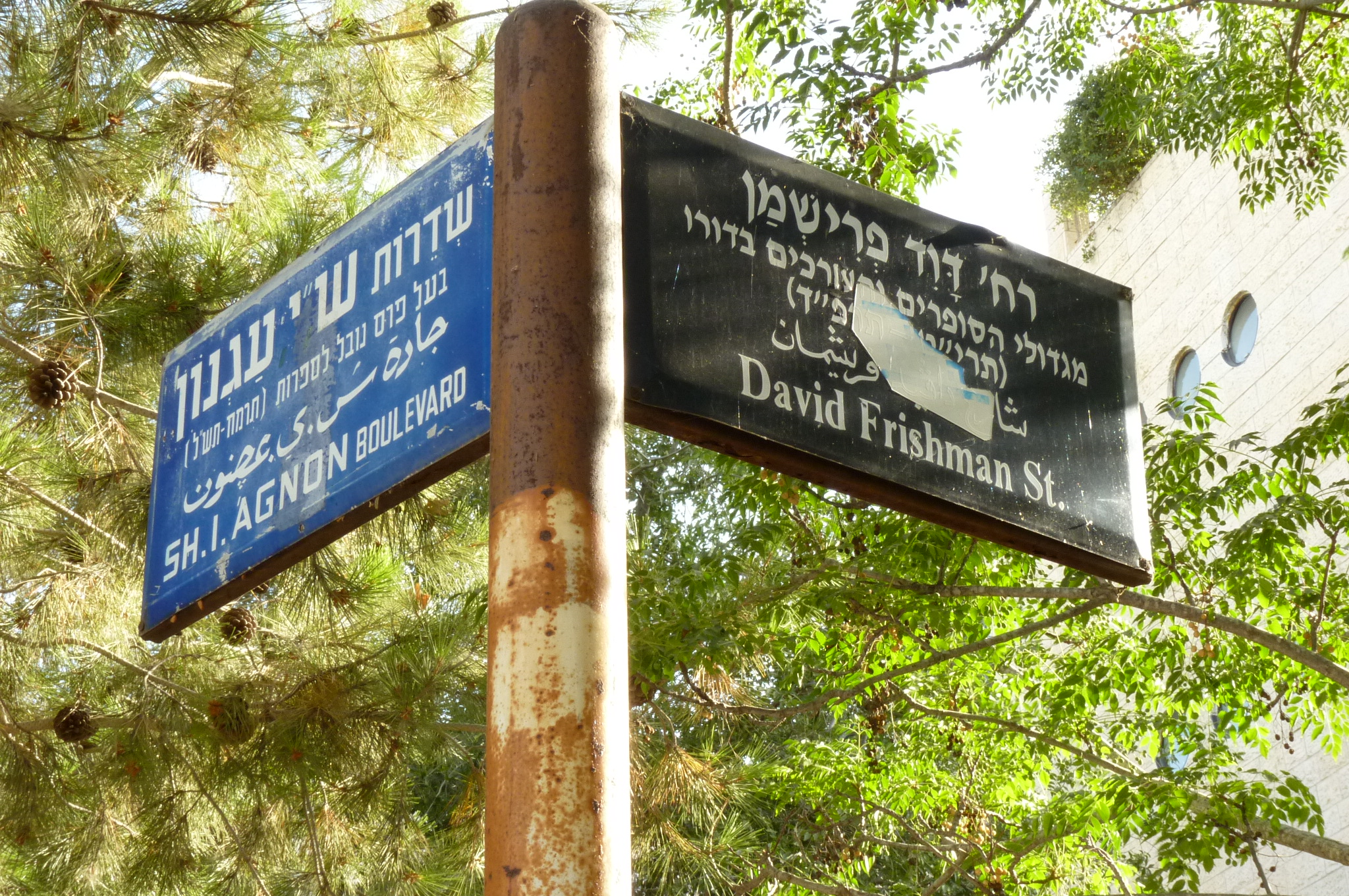 Street signs in Jerusalem for Shay Agnon blv. and David Frishman st.